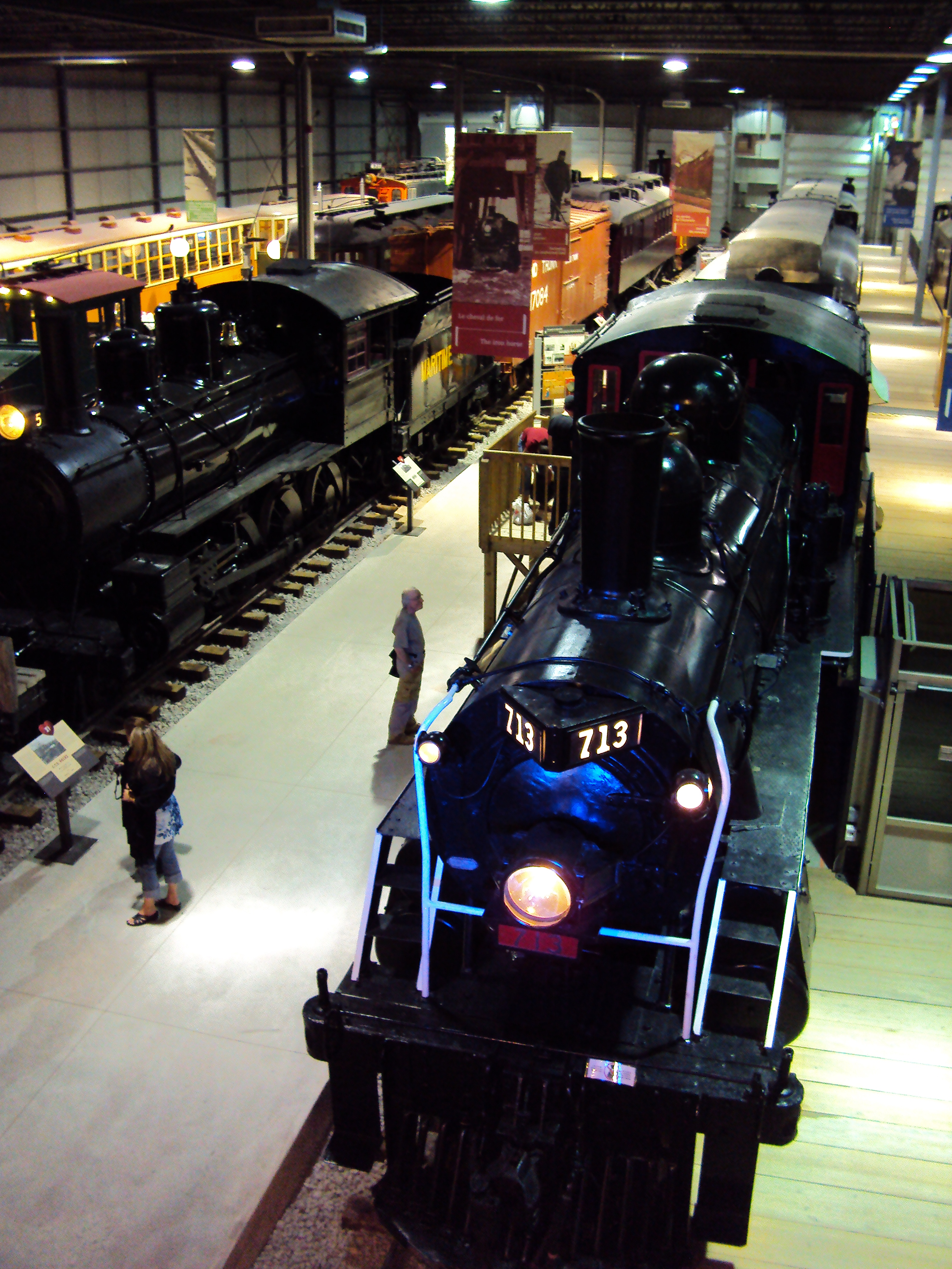 View of Angus main pavillon from the mezzanine